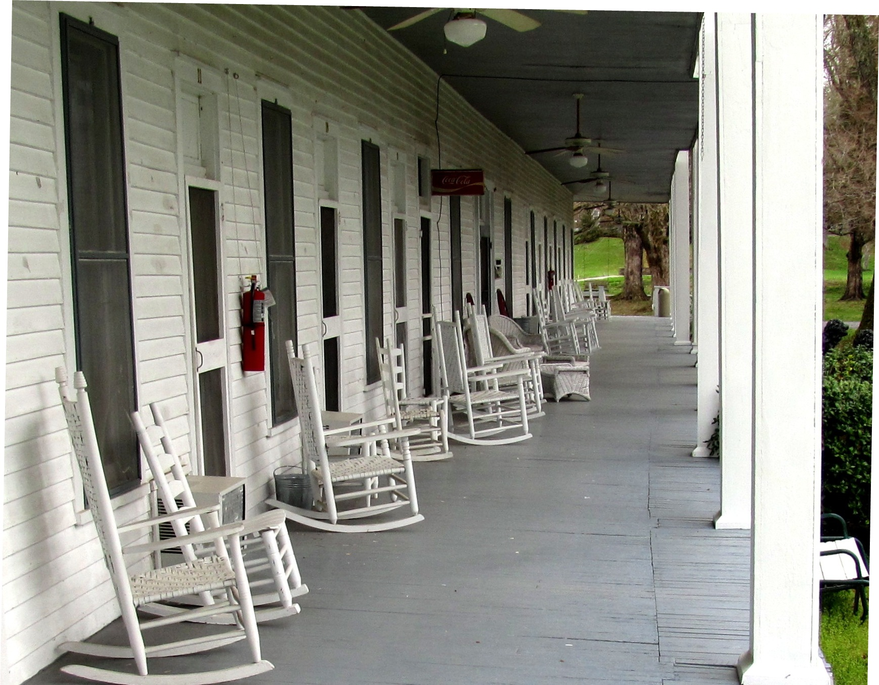 First-story verandah of the Donoho Hotel in Red Boiling Springs, Tennessee, USA.